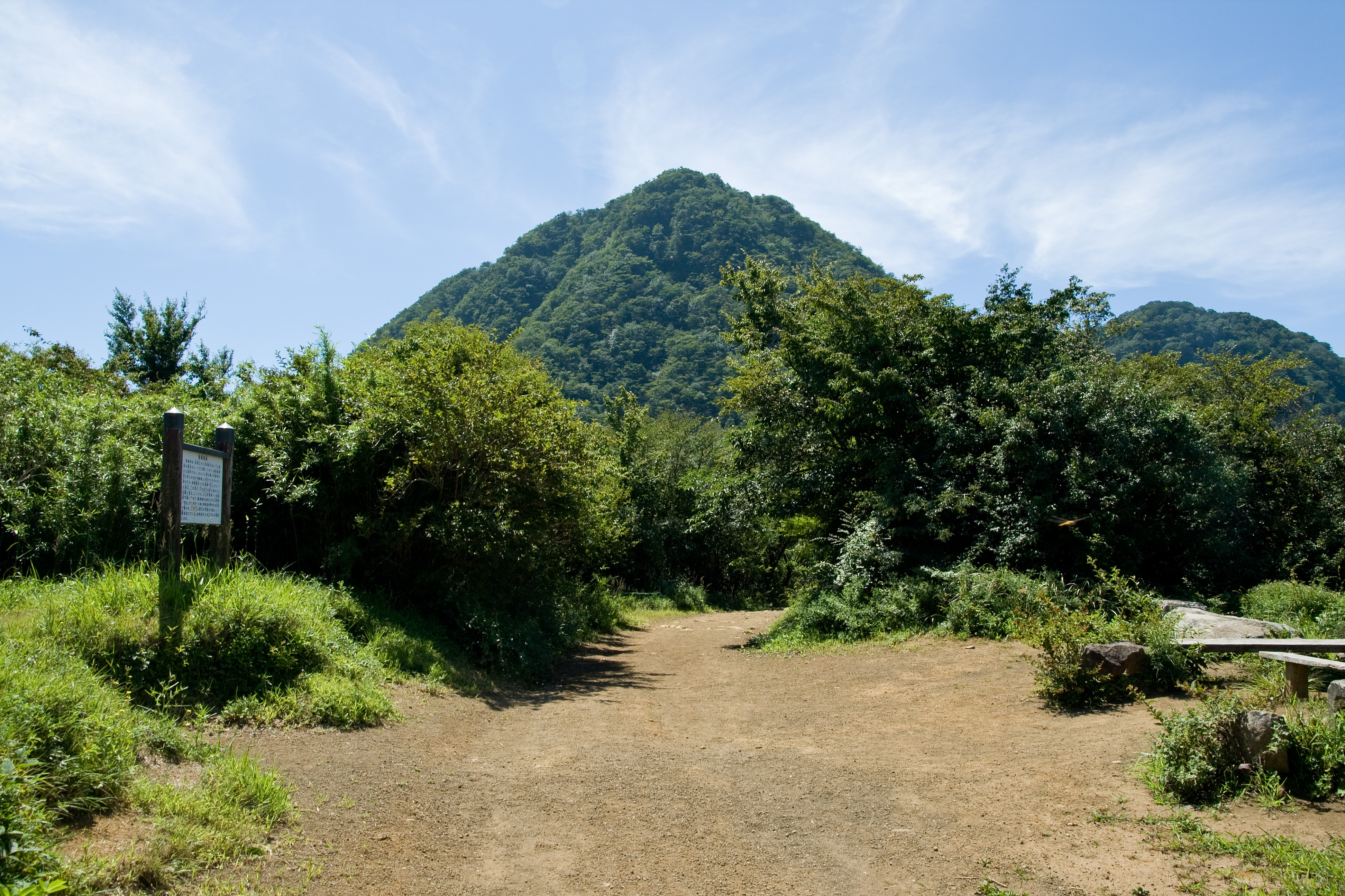 Mount Kintoki seen from north, Kanagawa pref, Japan.